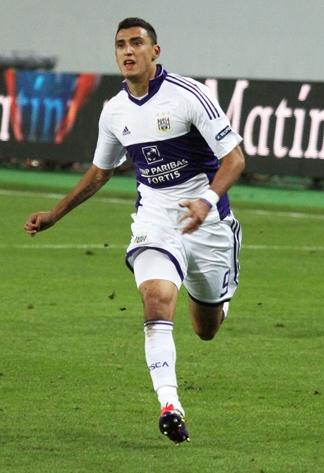 Matías Suárez with R.S.C. Anderlecht.